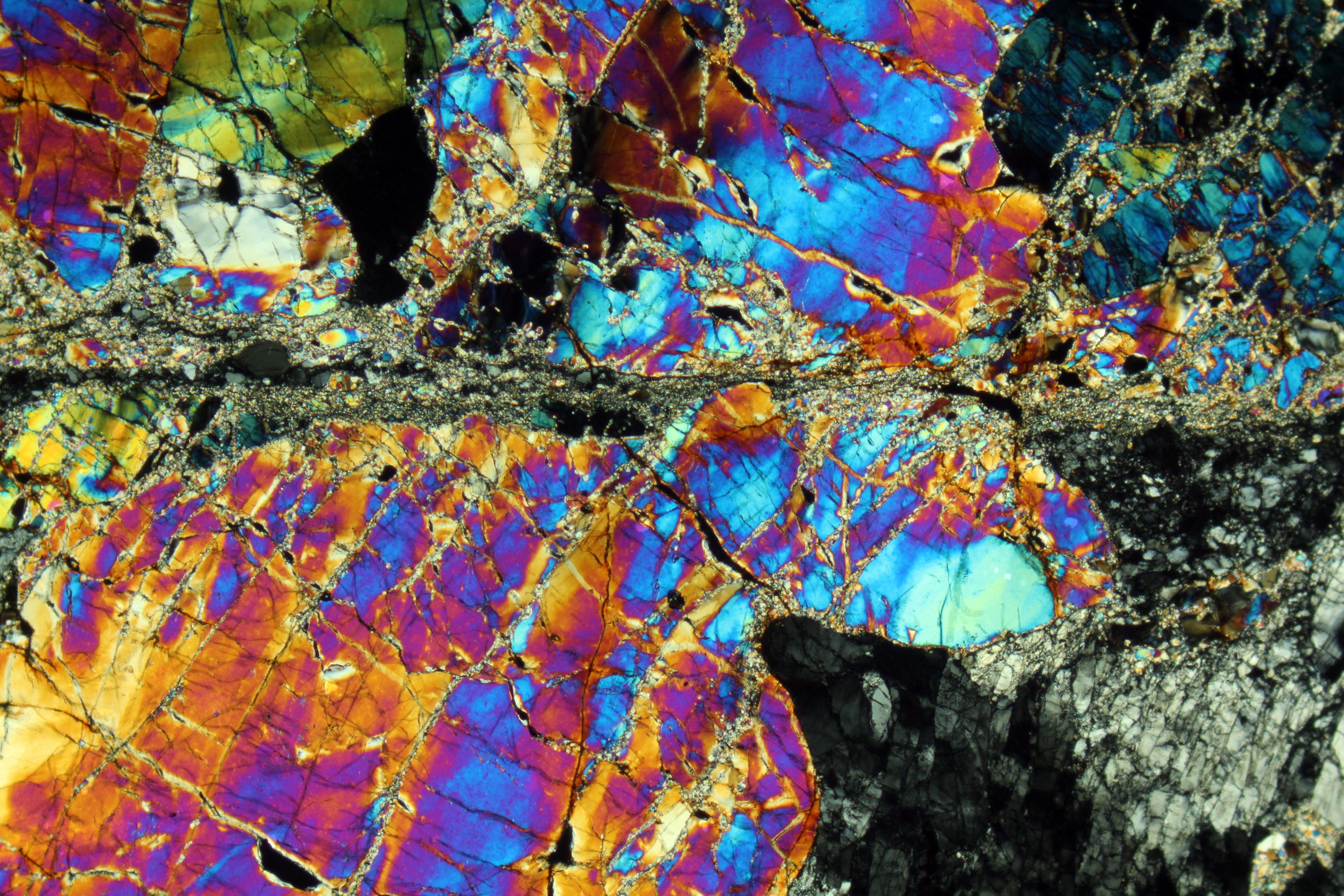 Peridotitic Mylonite. The central part of the rock is crossed by a "fault" that deform the rock. Crossed nicols image, magnification 2x (Field of view = 7mm)